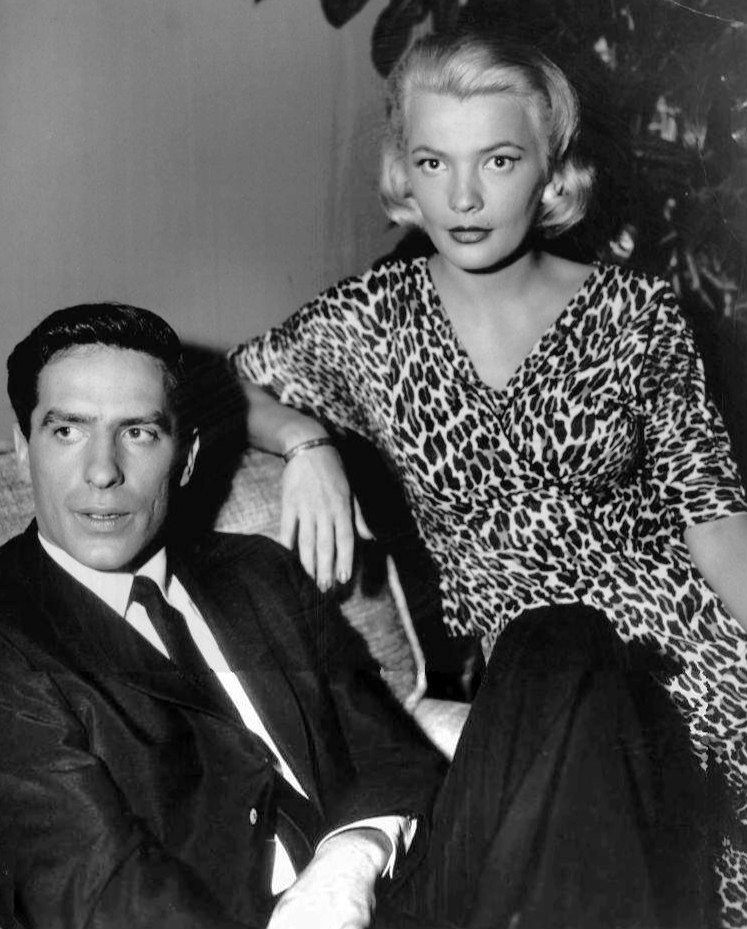 Photo of John Cassavetes and Gena Rowlands from the television program Johnny Staccato. Cassavetes had the lead in the series; Rowlands was a guest star on this episode.